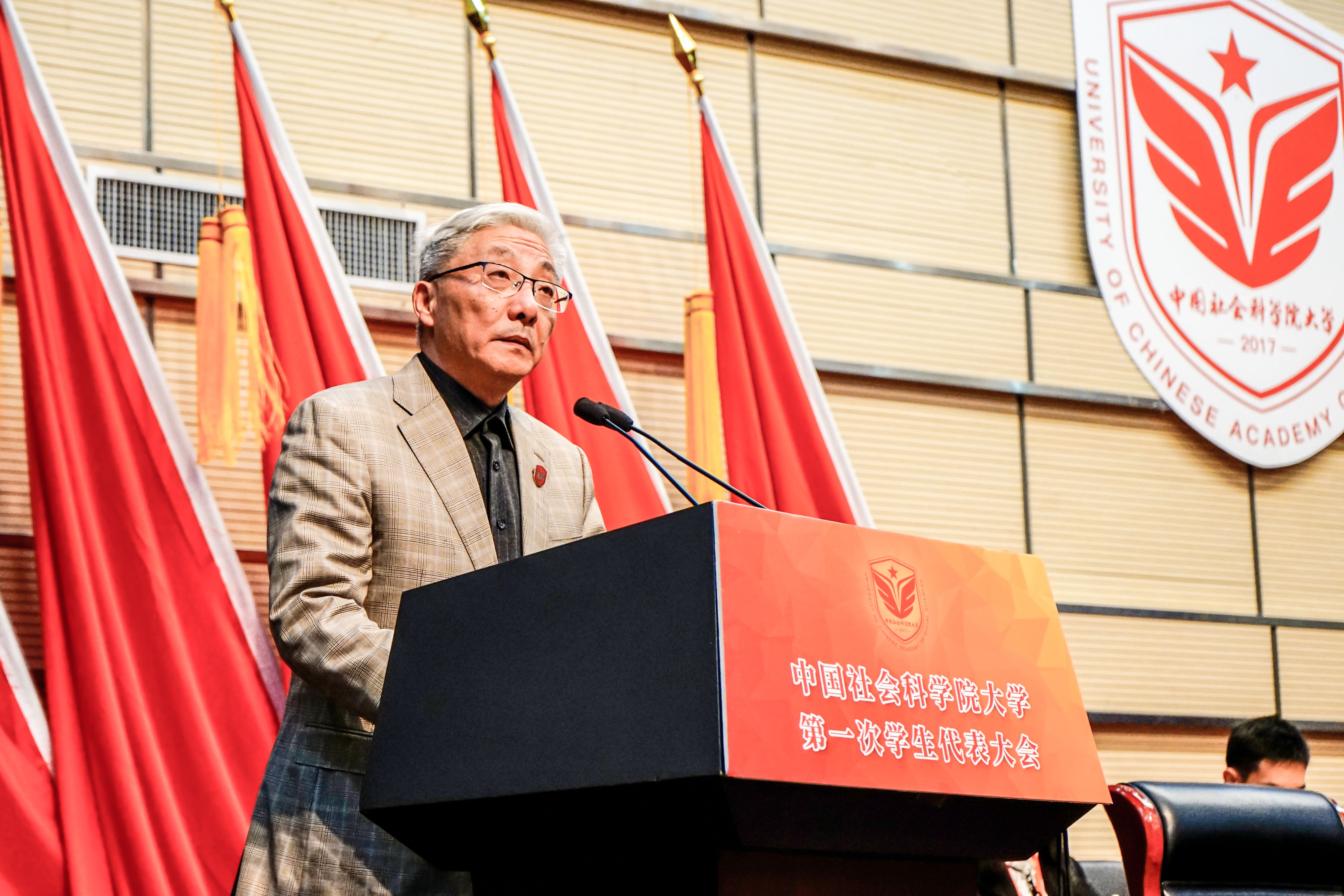 Zhang Zhengwen is speaking at the first student congress of the University of Chinese Academy of Social Sciences.